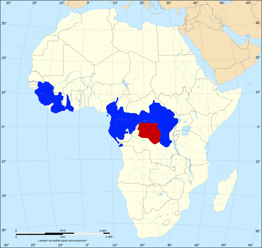 The red shading indicates the range of the bonobo. The blue shading indicates the range of the chimpanzee. This is an example of allopatric speciation because they are divided by a natural barrier (the Congo River) and have no habitat in common.